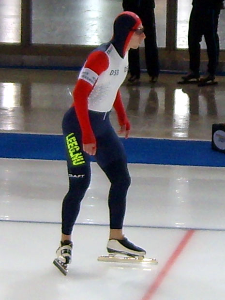 Aleksandr Lebedev (RUS) befor 1000 meters world cup speedskating race in Berlin, Germany.